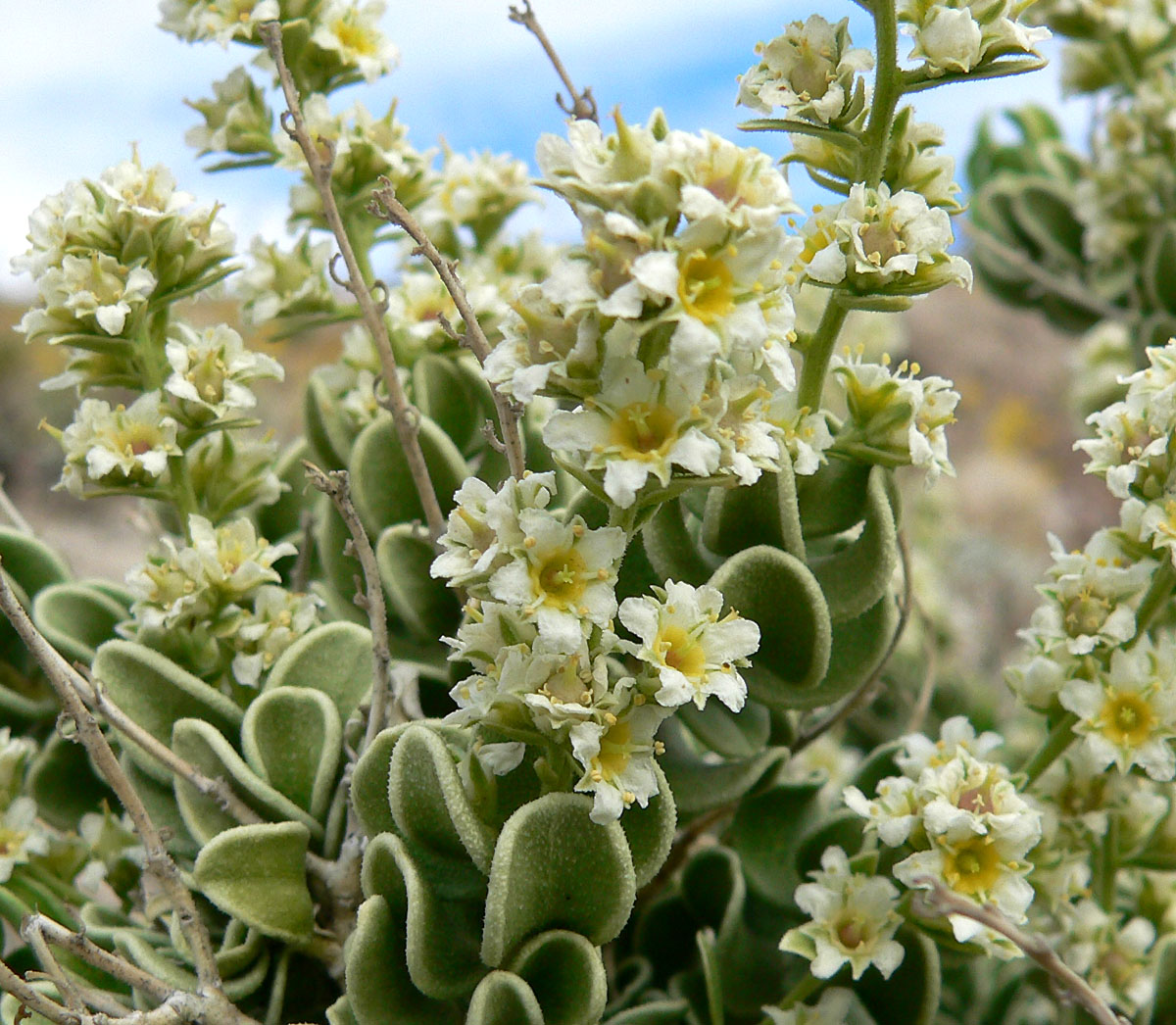 Photo of Mortonia utahensis in the desert at the west end of Cheyenne Ave, Las Vegas, Nevada (Lone Mountain area)